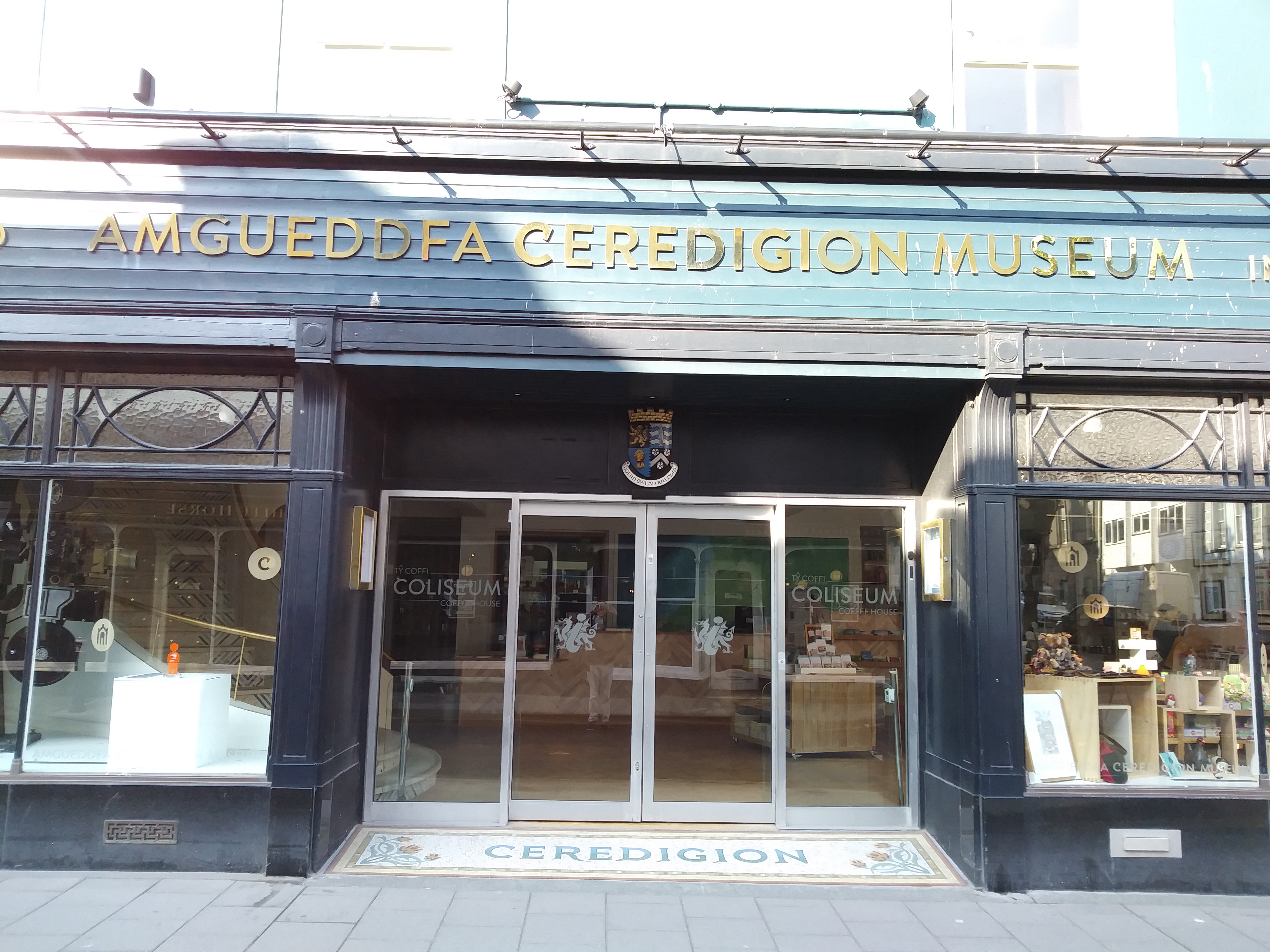 Ceredigion Museum, Aberystwyth